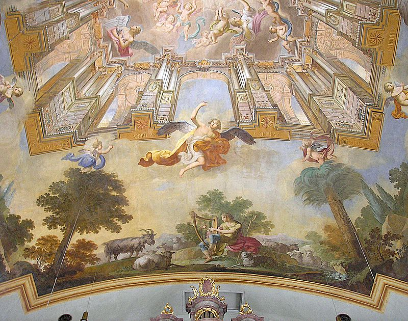 Parish church St. Martin (Baindlkirch near Ried, Bavaria, Germany). Great fresco (nave), western part. (Johann Joseph Anton Huber, 1810)